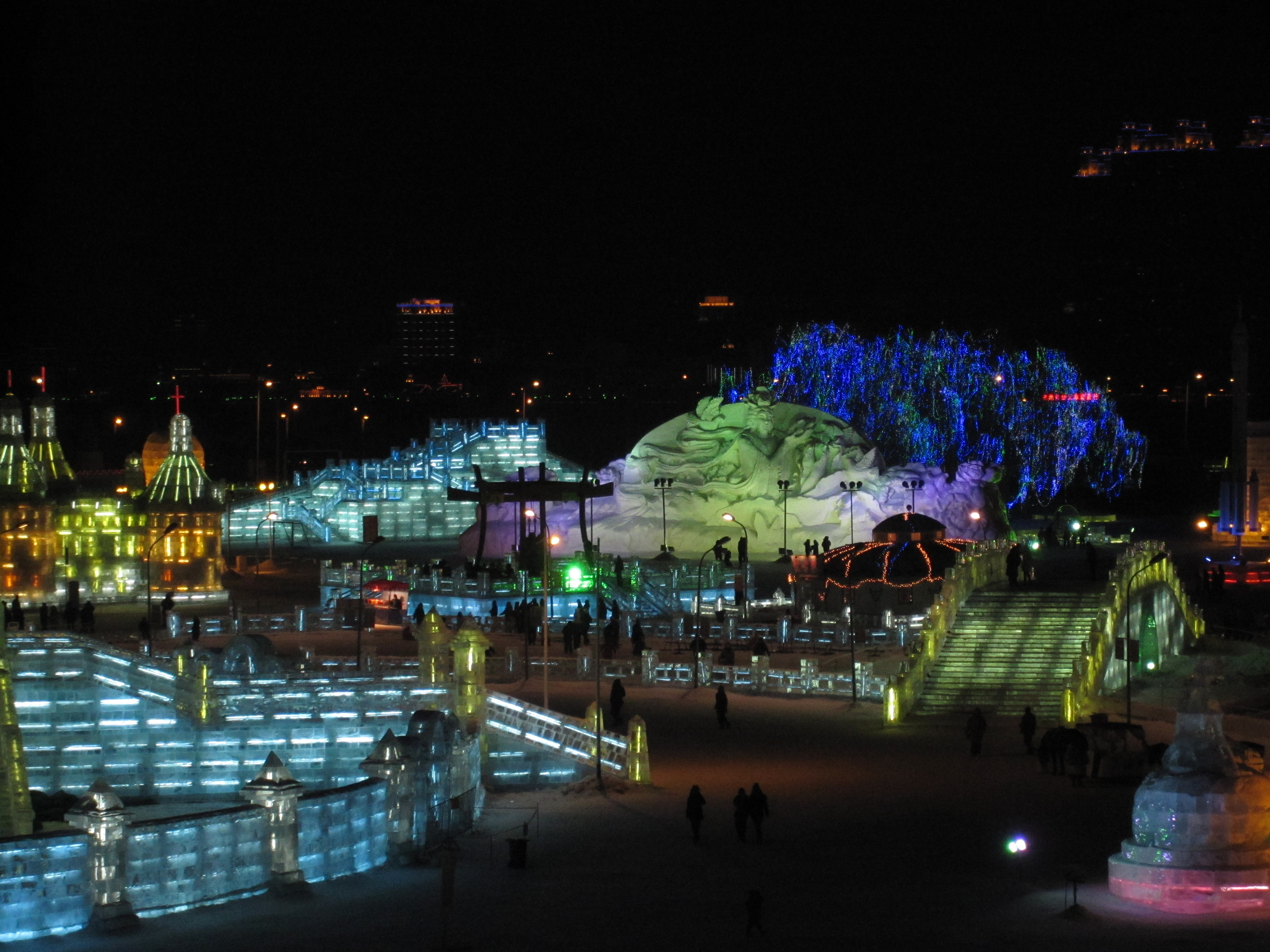 The Eleventh Harbin Ice Snow World、